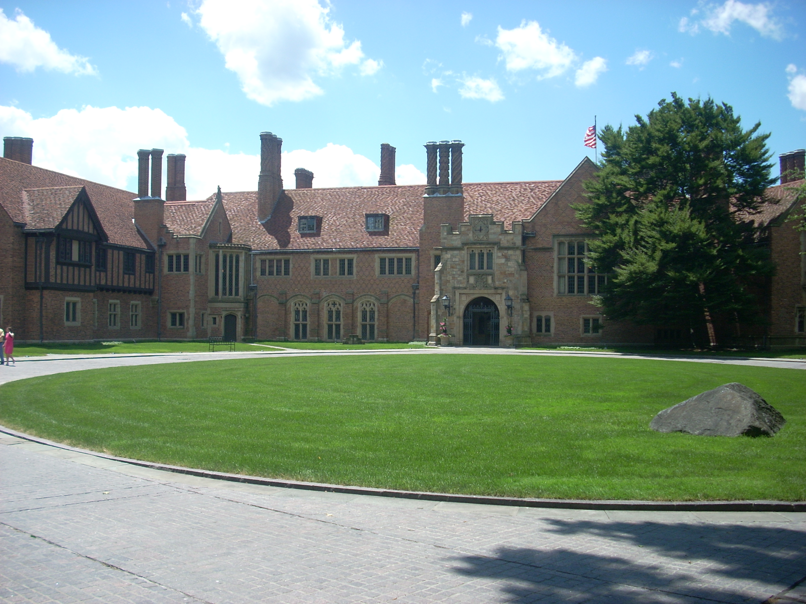 Medaowbrook Hall at Meadow Brook Farms — located in Rochester Hills, Oakland County, Michigan. Gothic revival style estate, now part of Oakland University. The building is a Registered Michigan State Historic Site, and on the National Register of Historic Places.